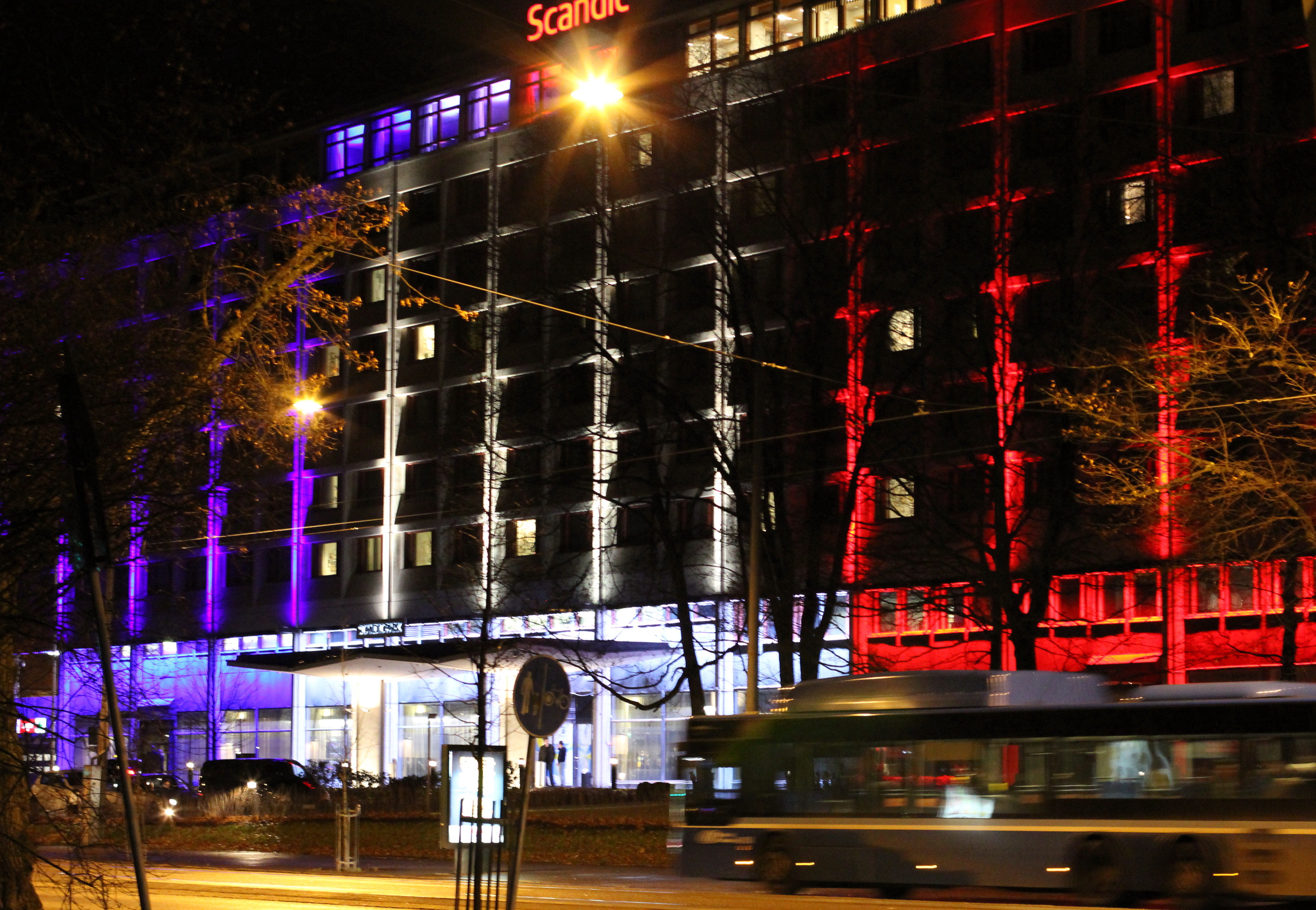 Hotel Scandic Park Helsinki, Finland. - After November 13 2015 Paris terrorist attacs.